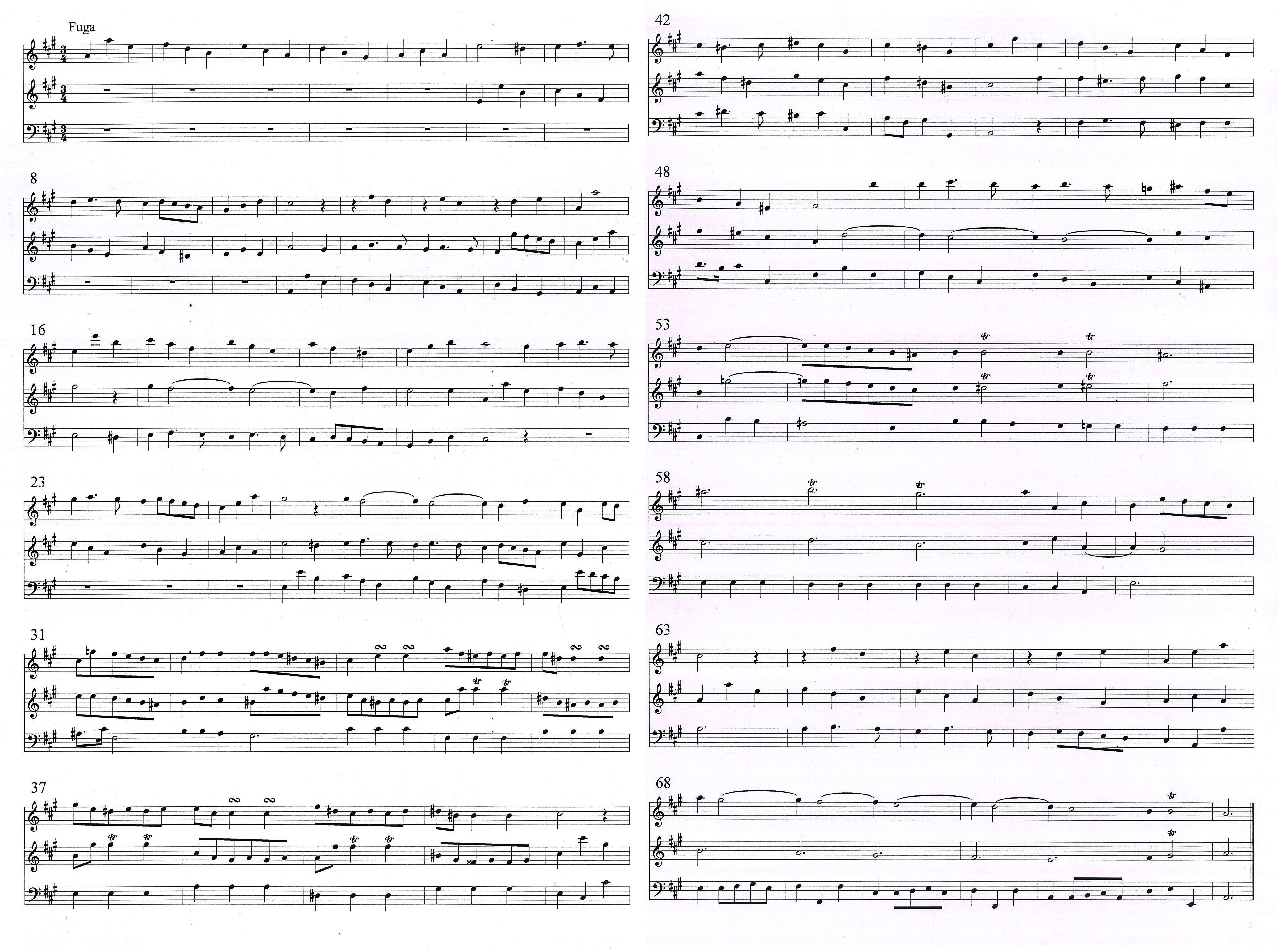 Anna Bon di Venezia: Divertimento op. III, Nr. II, 2 "Fuga", created 1759, modern score.